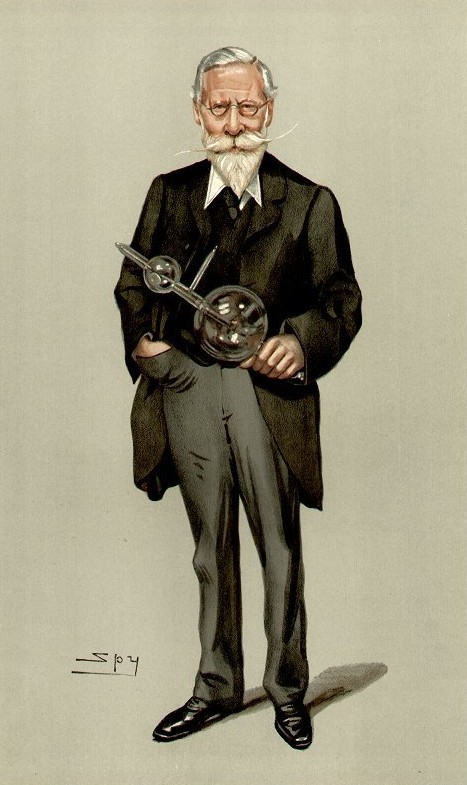 Caricature of British physicist Sir William Crookes (1832-1919), inventor of the Crookes tube, an early type of experimental vacuum tube which produced colorful light displays. Caption read "ubi Crookes ibi lux", which in Latin means roughly, "Where there is Crookes, there is light".